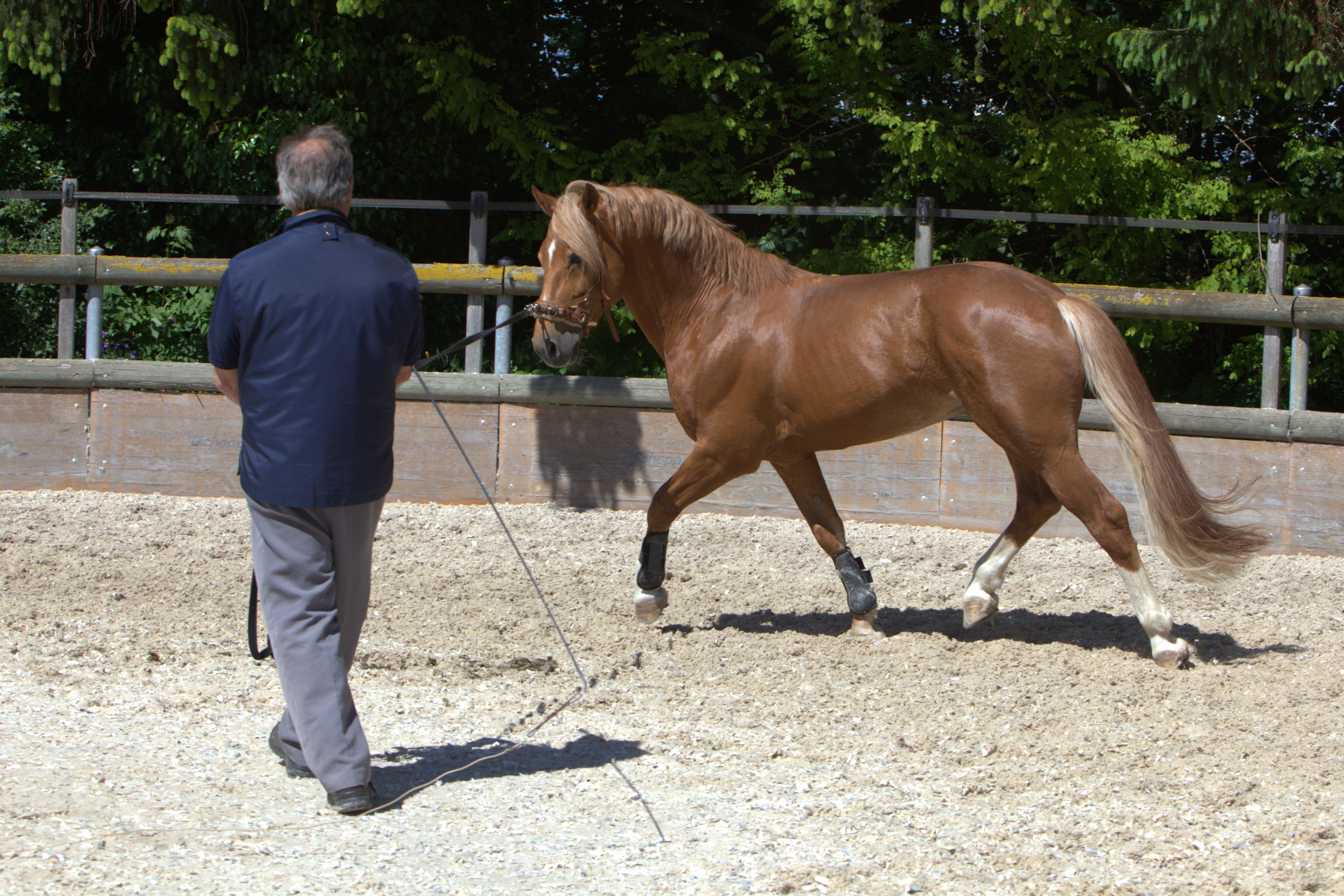 Swiss national stud far, Avenches The making of this document was supported by Wikimedia CH. (Submit your project!) For all the files concerned, please see the category Supported by Wikimedia CH.